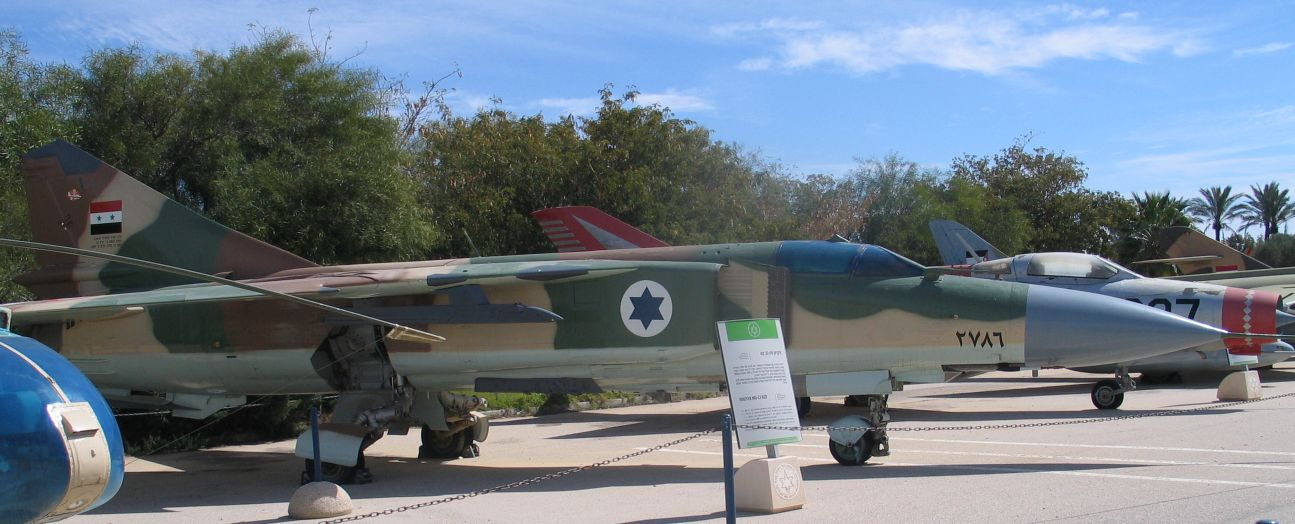 MiG-23 at Muzeyon Heyl ha-Avir, Hatzerim airbase, Israel.